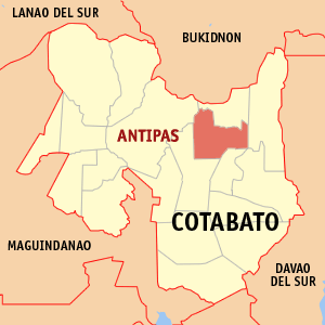 Map of the Cotabato showing the location of Antipas